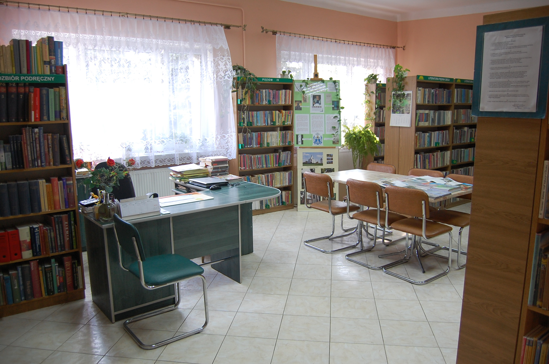 Konopnica Public Library (inside after renovation)